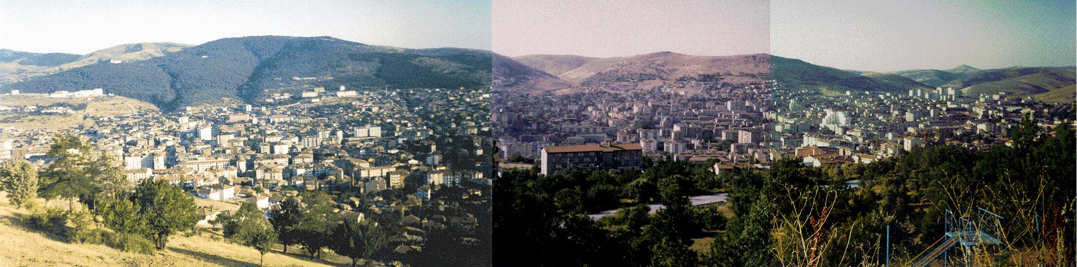 Yozgat City Center official. 3 files in the combined (composite picture)